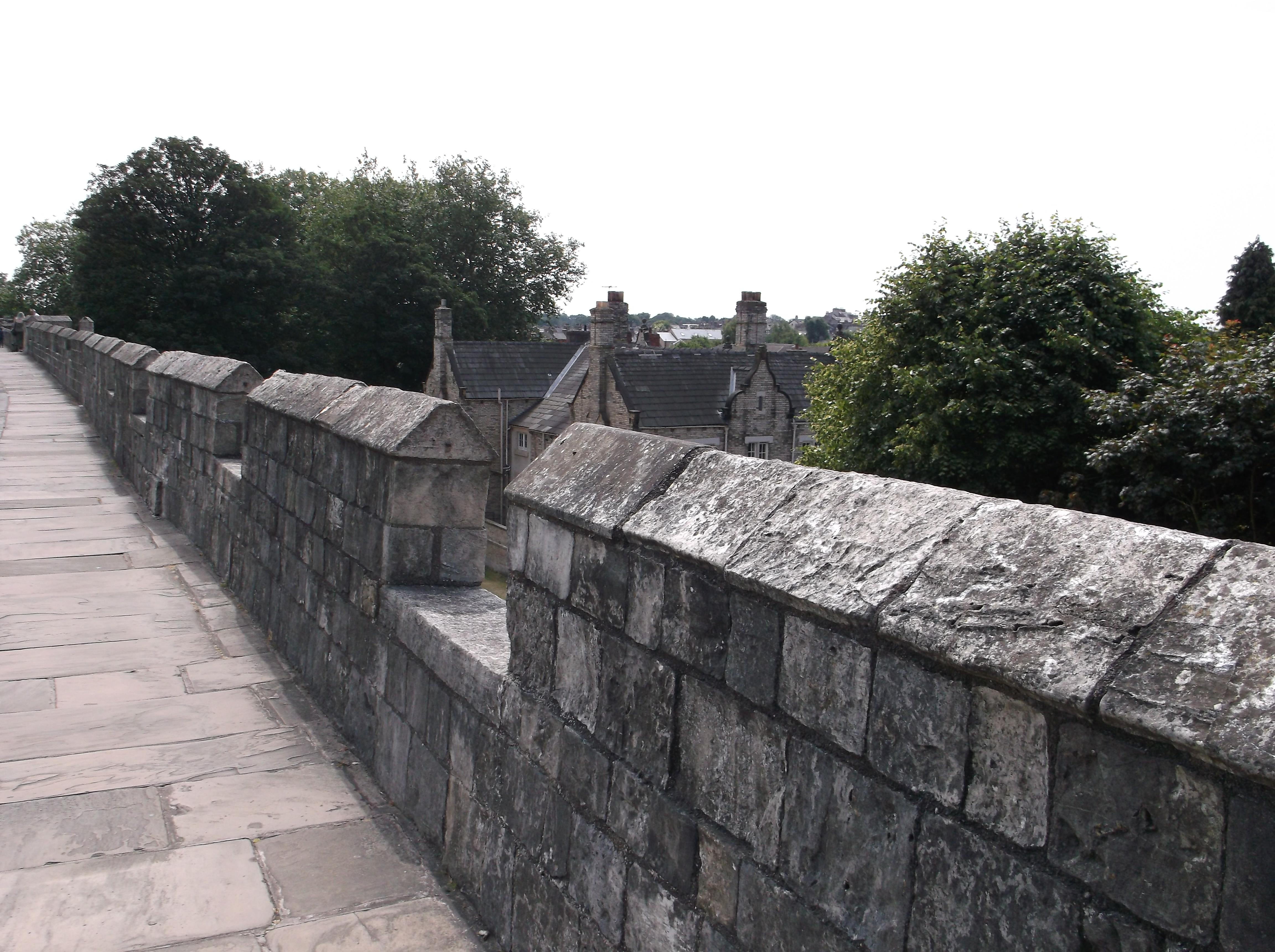 York city walls between Micklegate Bar and Fishergate Bar